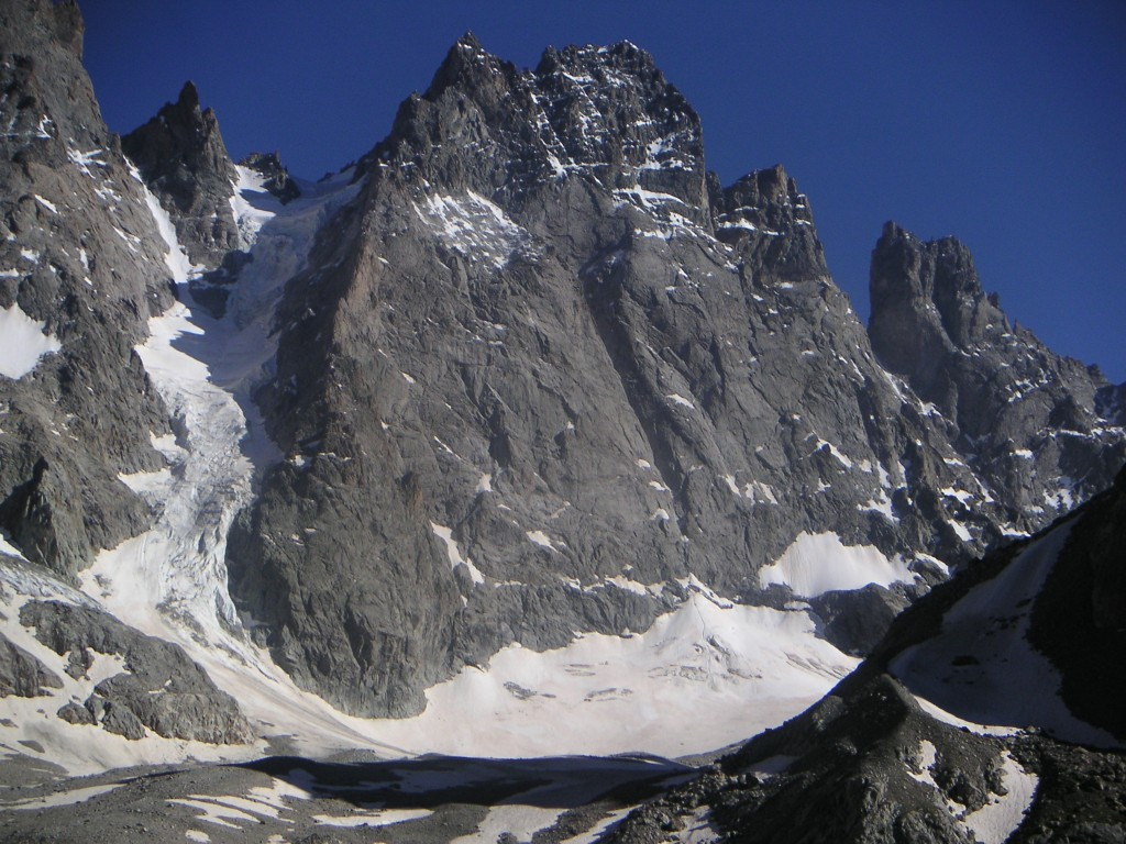 Pic Sans Nom - North face